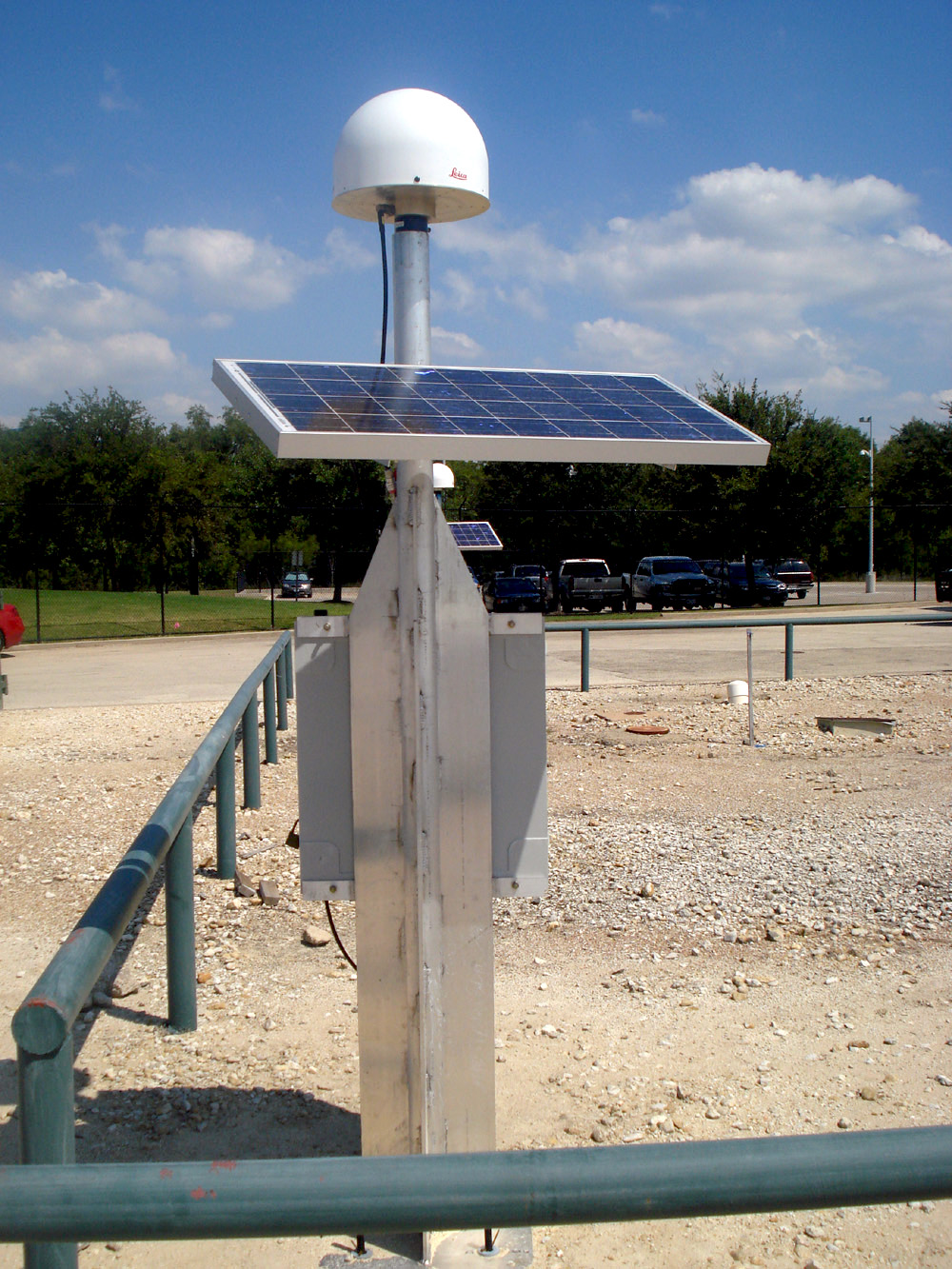 CORS Reference Station LCRH; Location: Spicewood, TX